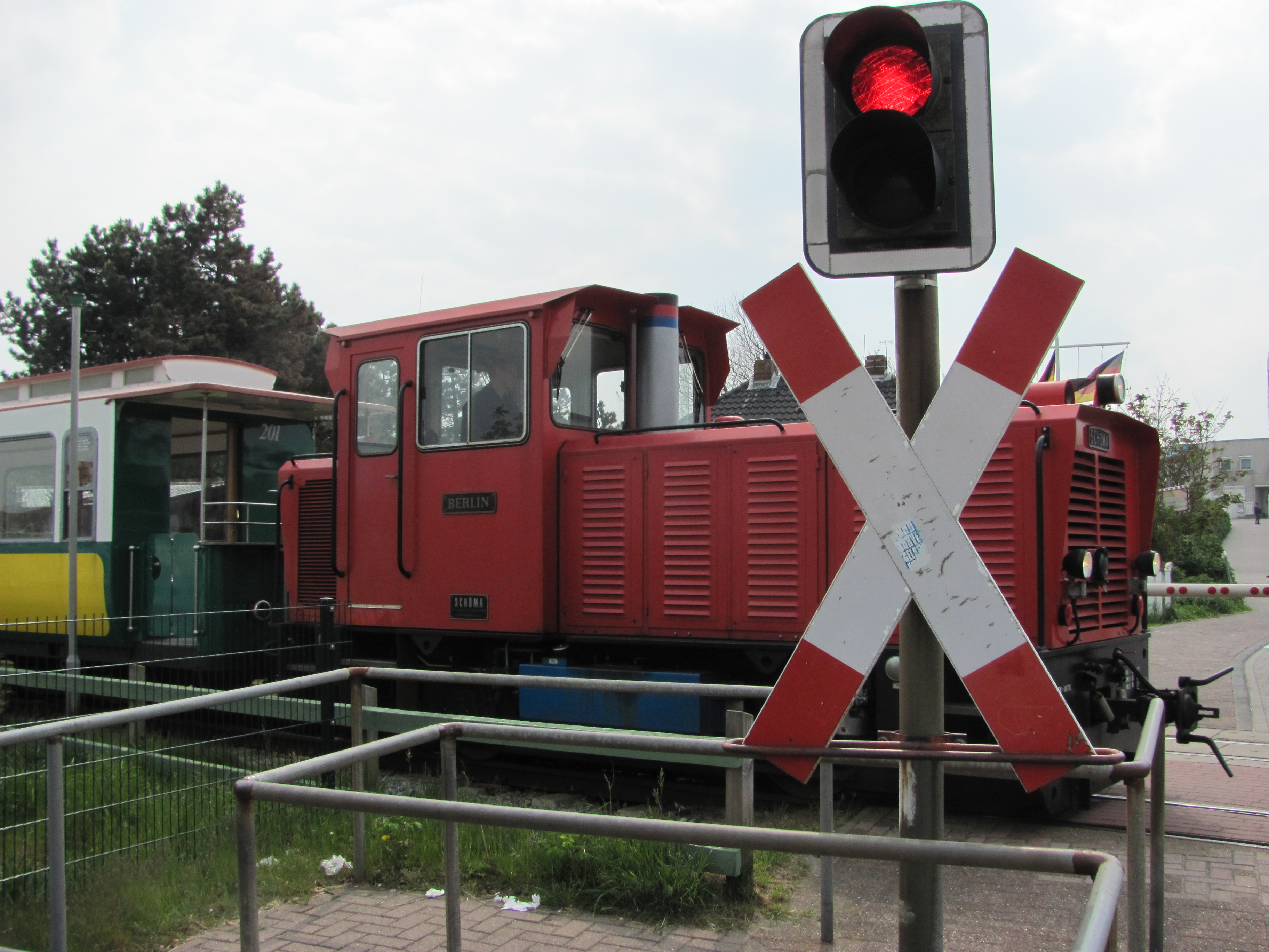 Level crossing of Borkumer Kleinbahn